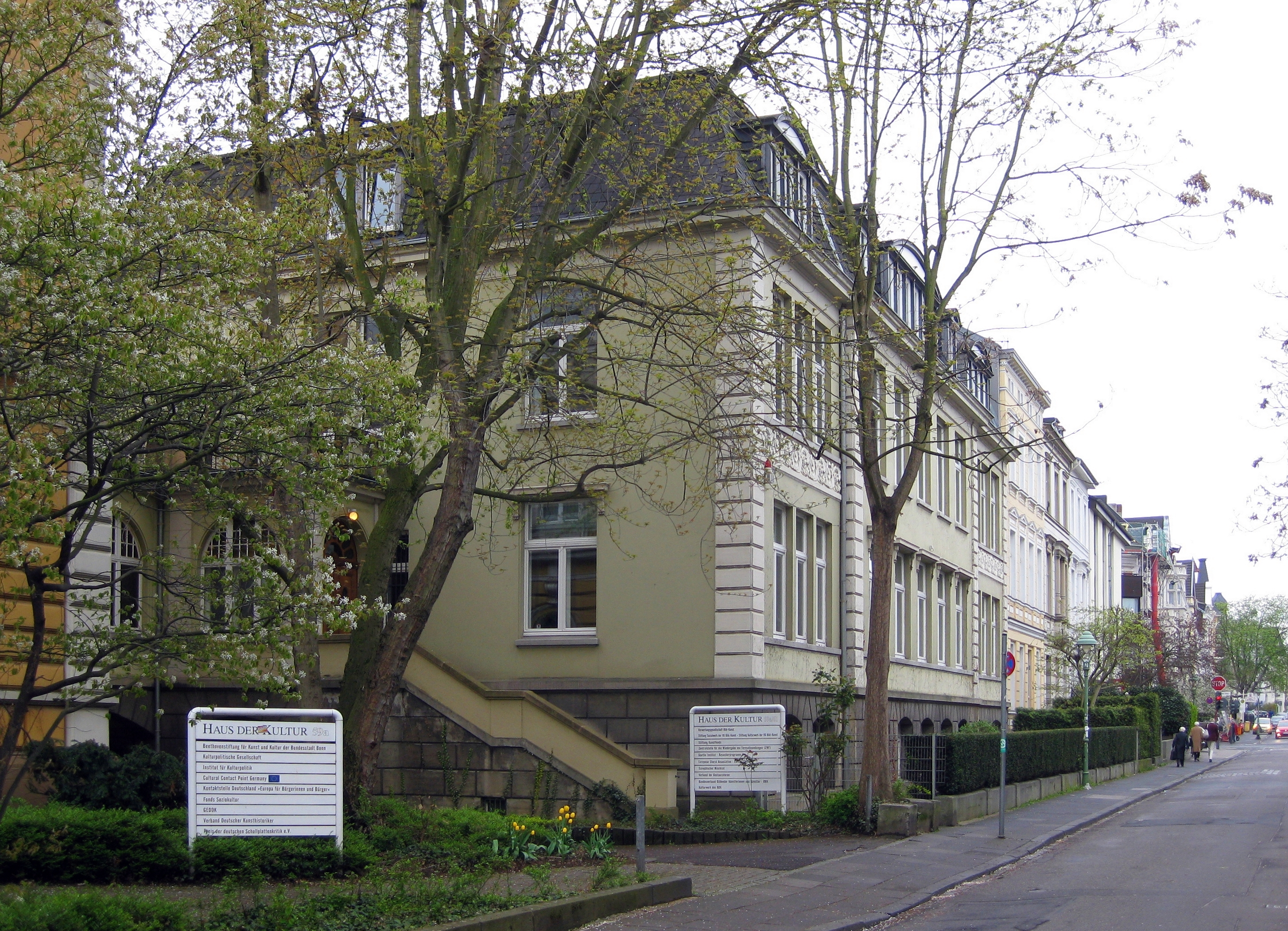 Germany, Bonn, Suedstadt (southern city), Weberstrasse: headquarters of the "Haus der Kultur" (House of Culture), home to several organizations in the cultural sector.